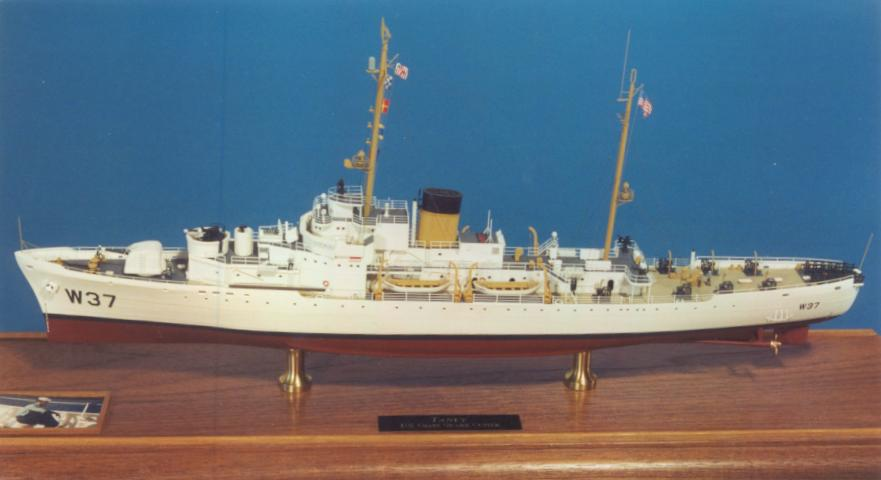 USCG Taney model by Tim Reynaga